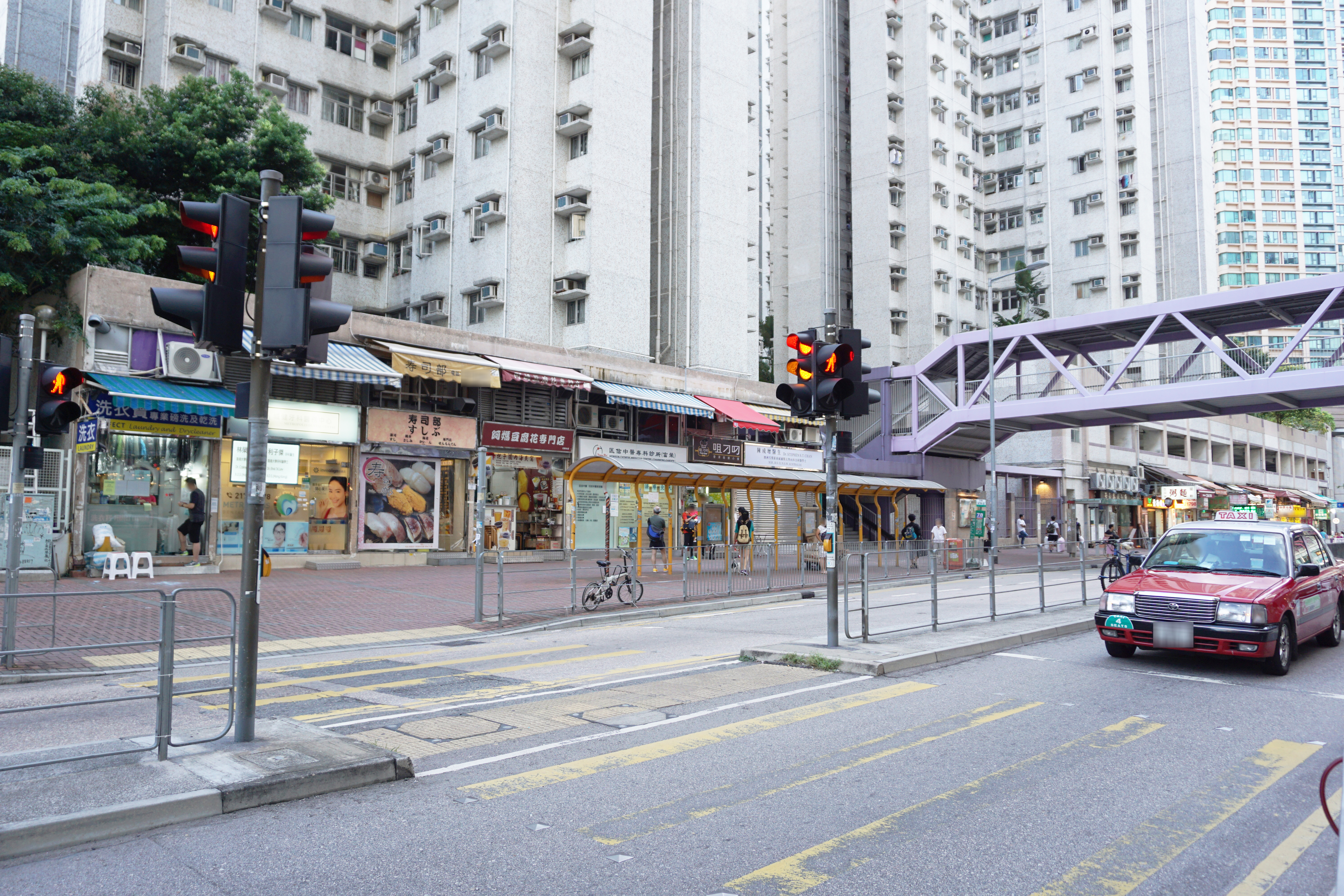 Charming Garden in Mong Kok, Hong Kong.